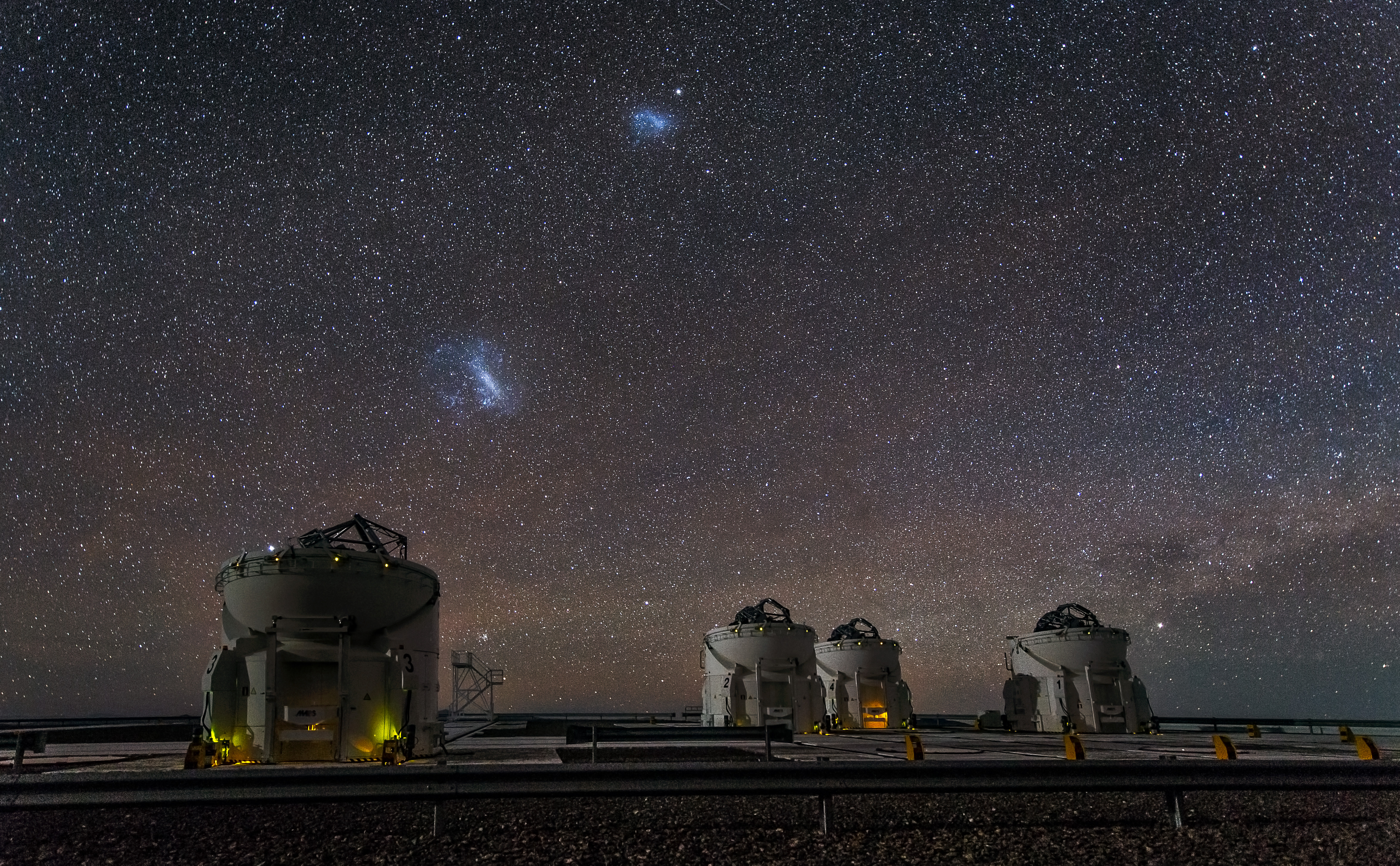 This beautiful image taken at ESO's Paranal Observatory shows the four Auxiliary Telescopes of the Very Large Telescope (VLT) Array, set against an incredibly starry backdrop on Cerro Paranal in Chile. The Auxiliary Telescopes are each 1.8 metres in diameter and work with the four 8.2-metre diameter Unit Telescopes to make up the world's most advanced optical observatory. The telescopes work together to form the VLT Interferometer (VLTI), a giant interferometer which allows astronomers to see details up to 25 times finer than would be possible with the individual Unit Telescopes. Hanging over the site are the prominent Small and Large Magellanic Clouds, visible only in the southern sky. These two irregular dwarf galaxies are in the Local Group and so are companion galaxies to our own galaxy, the Milky Way. The image was taken by our Flickr friend John Colosimo who submitted it to the Your ESO Pictures Flickr group.